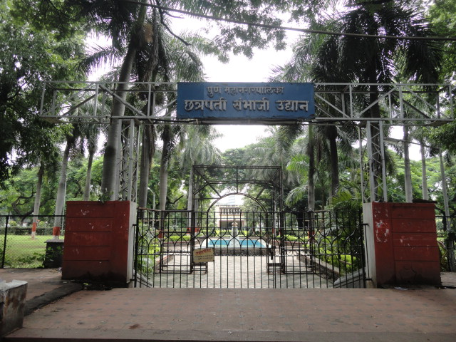 Photos Taken at Wikipedia Takes Pune Event on 7th October 2012.